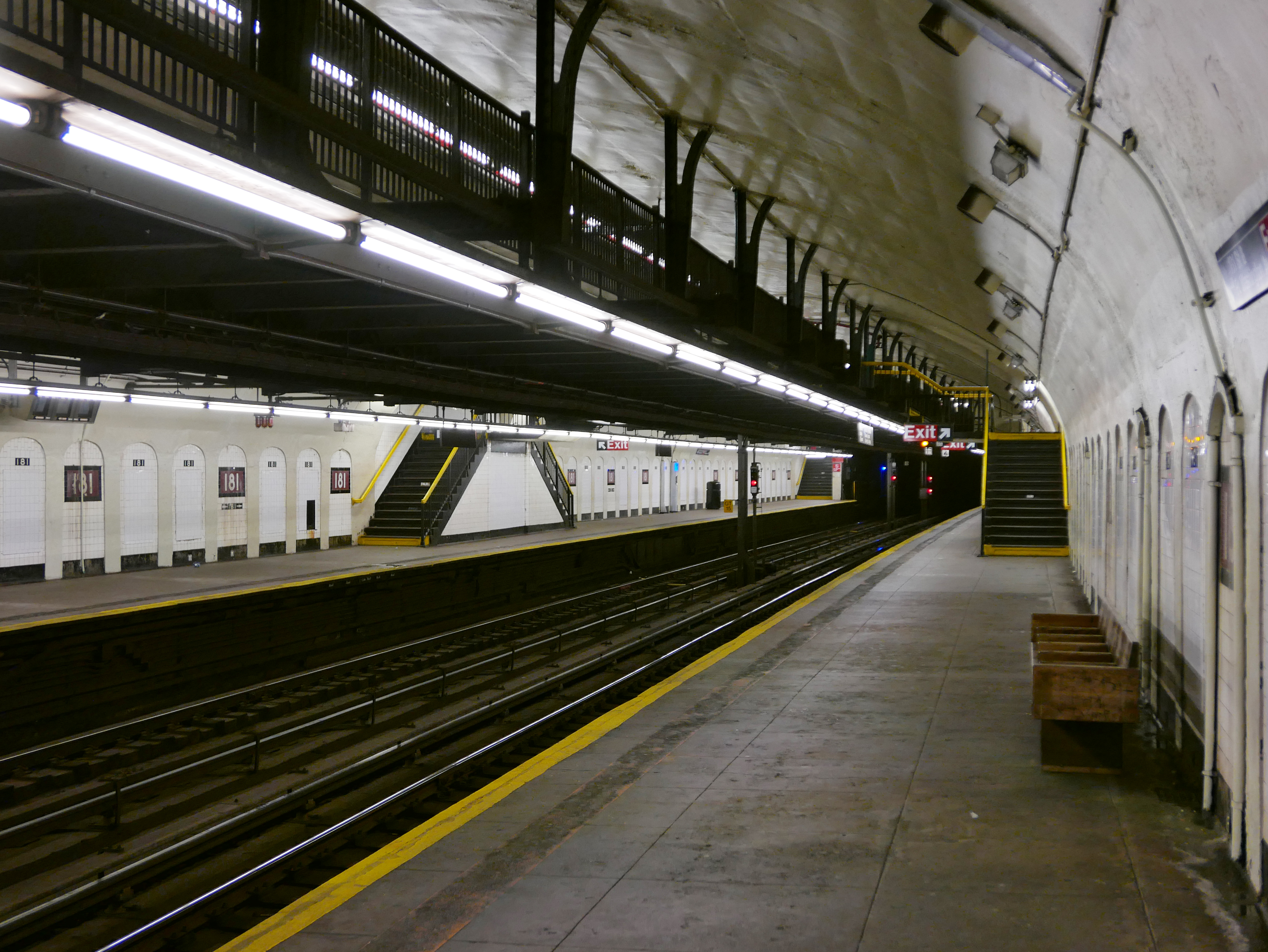 View from the southbound platform of the IND 181st Street station, camera facing south. No visible passengers.